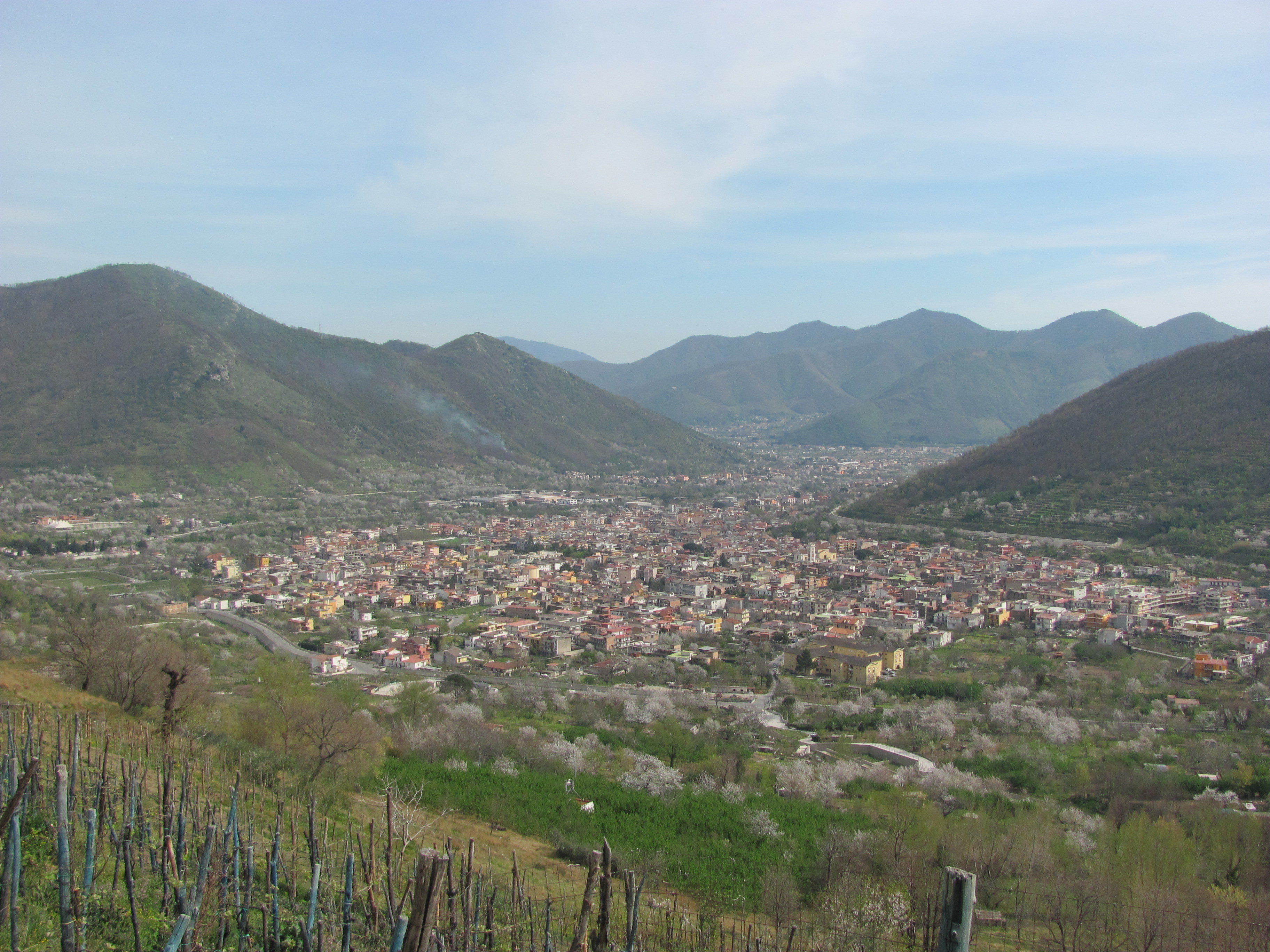 Siano (SA), Italia, Ingresso vallata, ciliegi in fiore